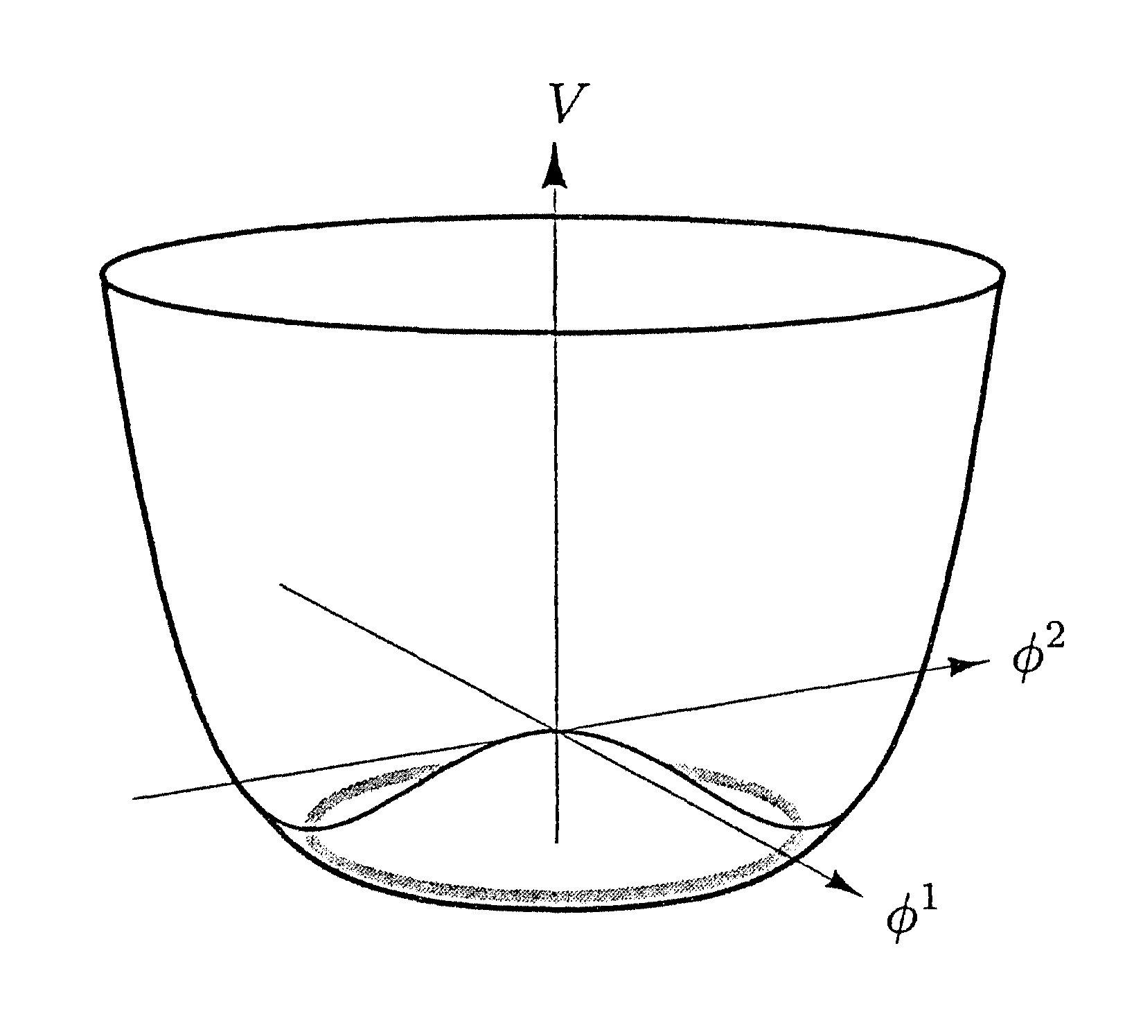 LinearSigmaModel